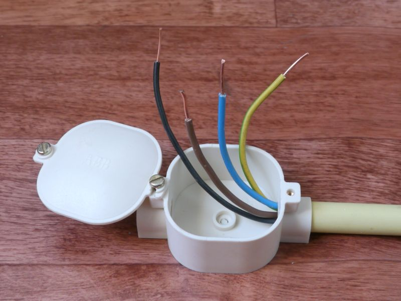 Electric wire installation (for use with 230V) through a yellow PVC conduit. The four standardized European colours: -brown - phase (line) -blue - neutral -black - link -yellow/green - earth or ground